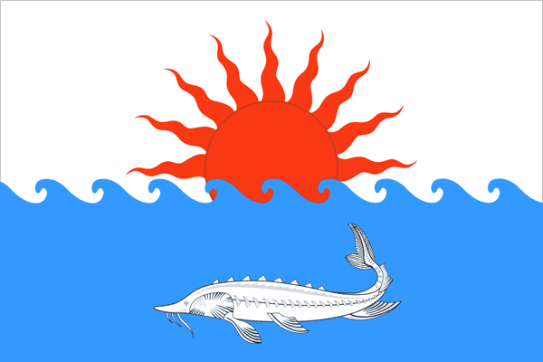 Flag of Primorsko-Akhtarsky rayon, Krasnodar Territory, Russia